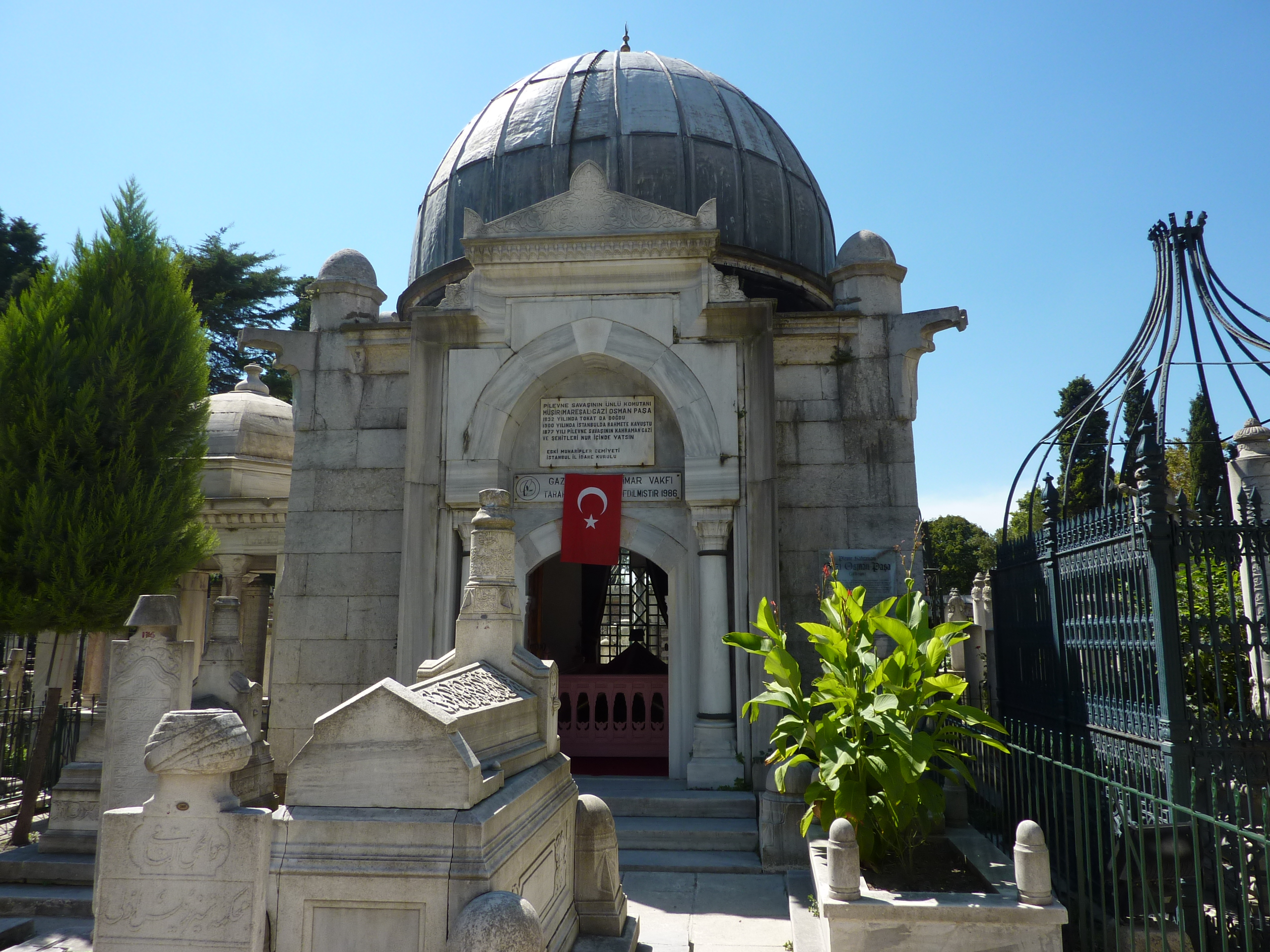 Mausoleum of Osman Pasha, near Fatih Mosque